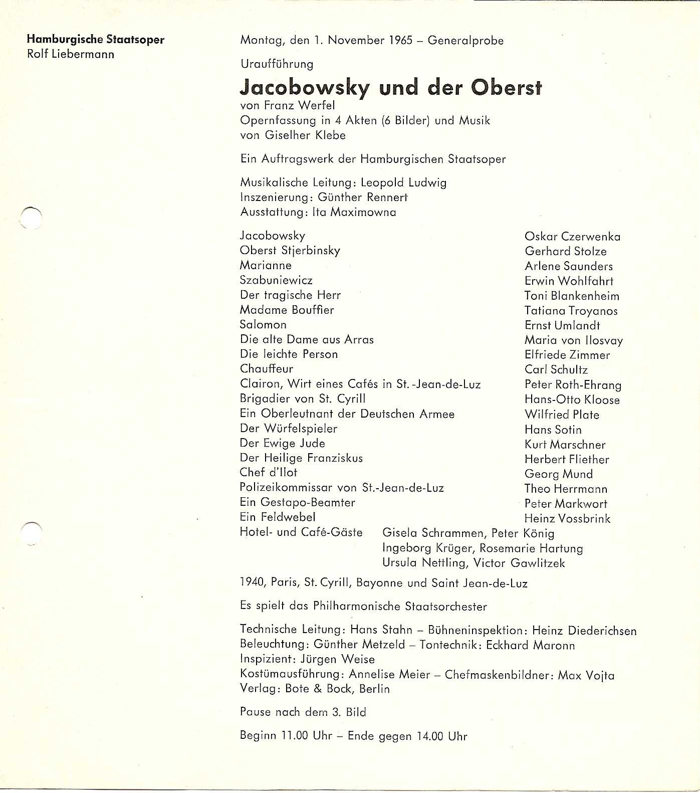 Playbill for the general rehearsal before the premiere of Giselher Klebe's opera Jacobowsky und der Oberst on 1 November 1965 at the Hamburg State Opera